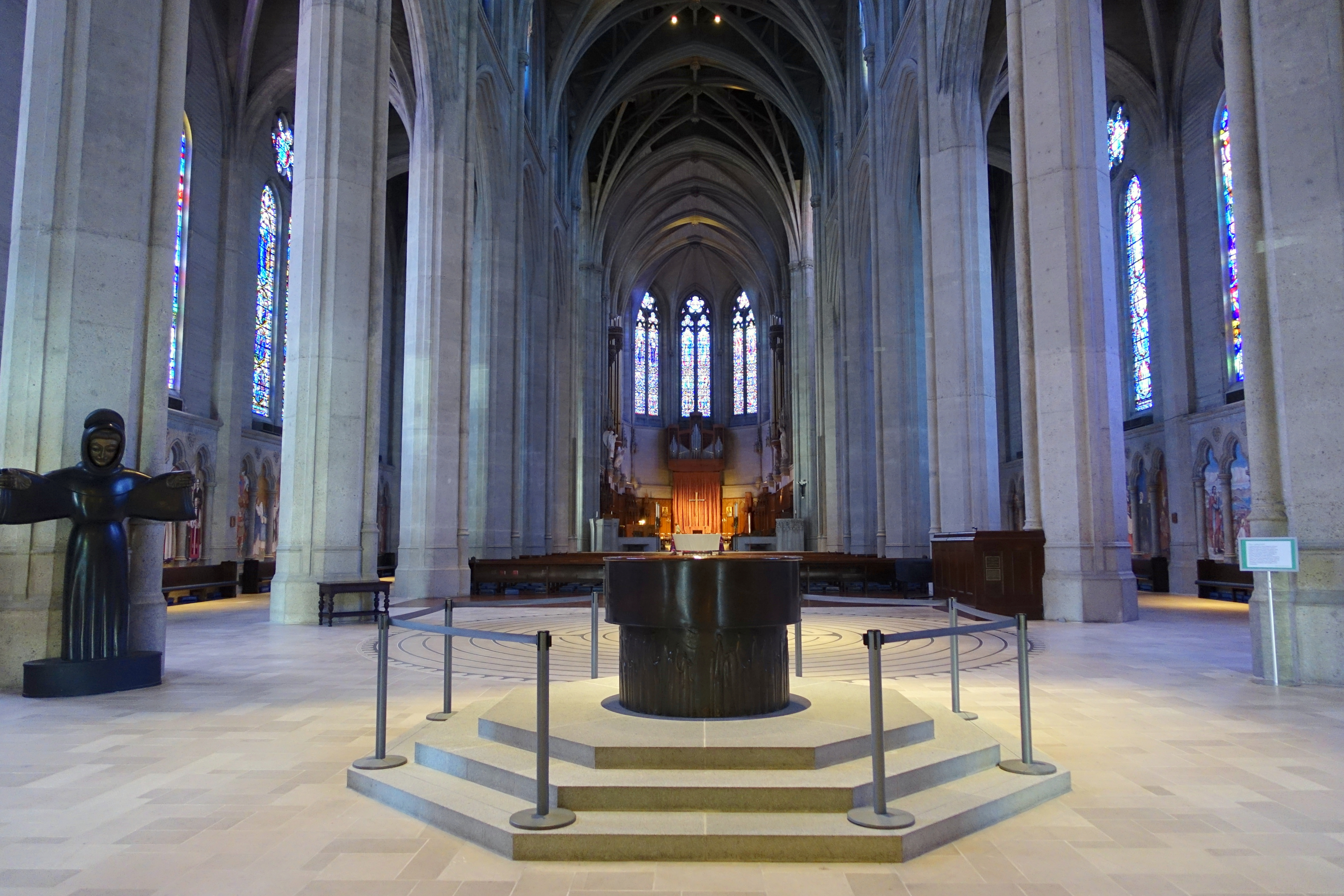 Interior of Grace Cathedral - San Francisco, California, USA.